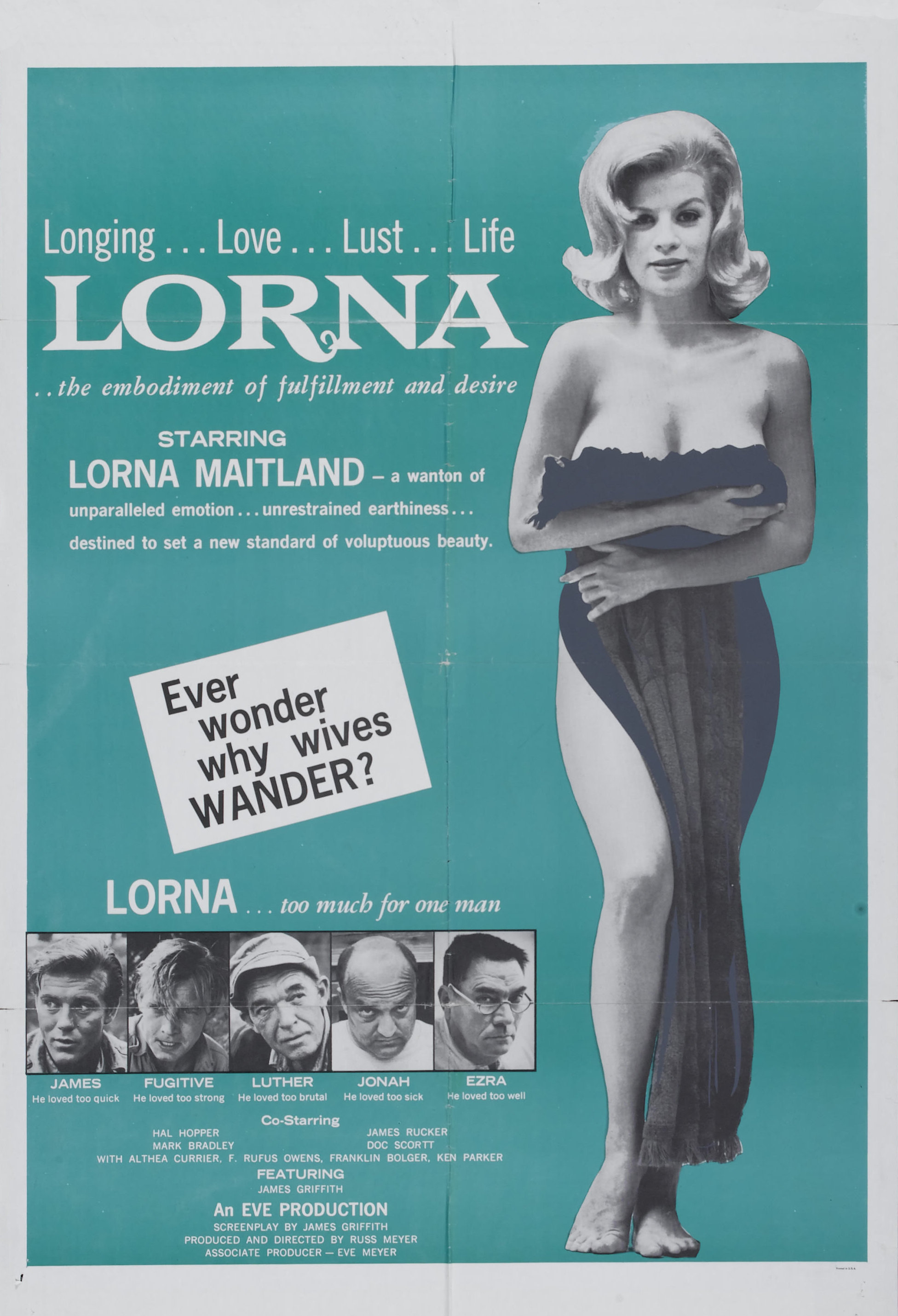 Film poster for the exploitation film Lorna